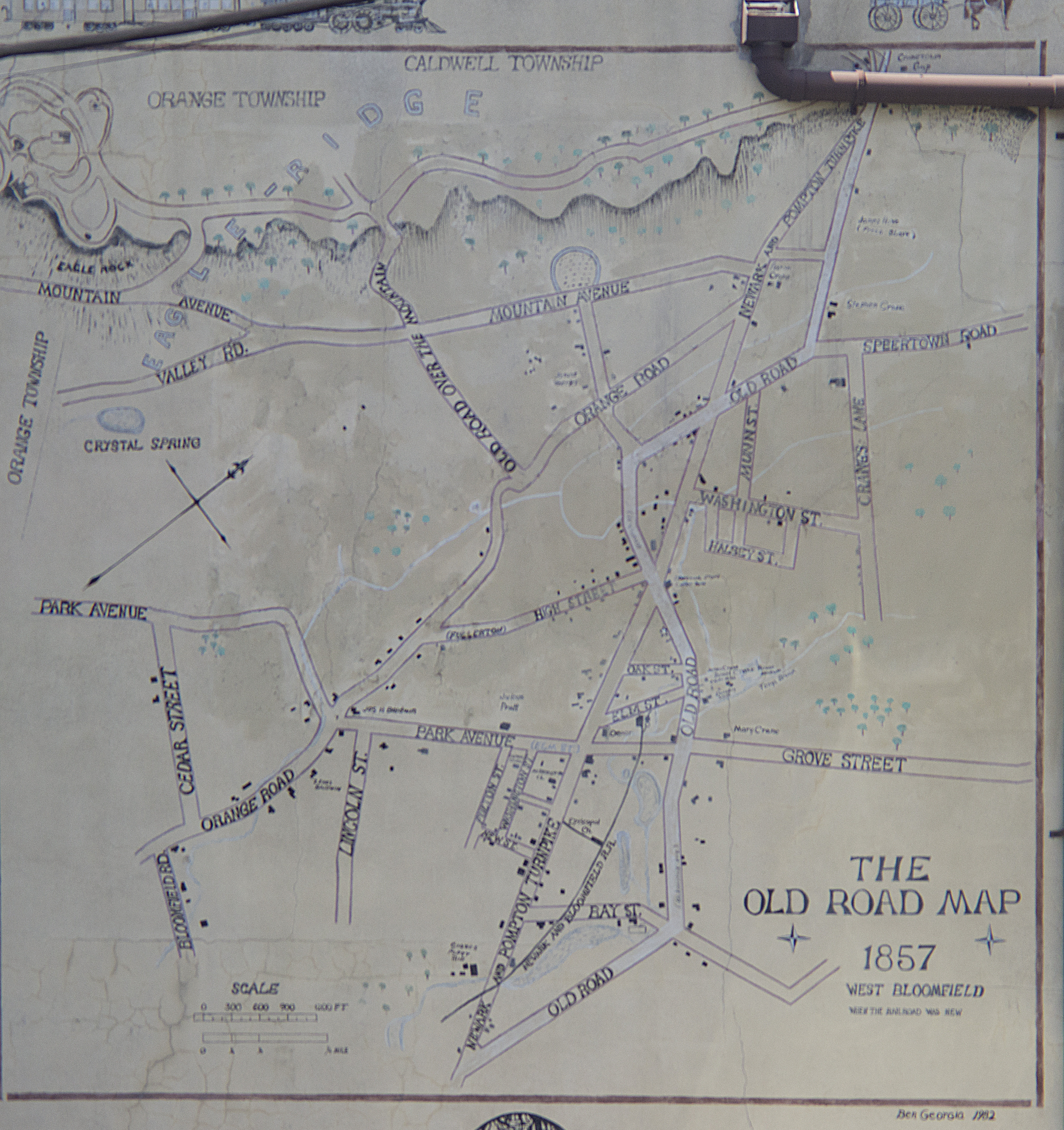 A mural of the map of Montclair, New Jersey as of 1857, when it was known as West Bloomfield.